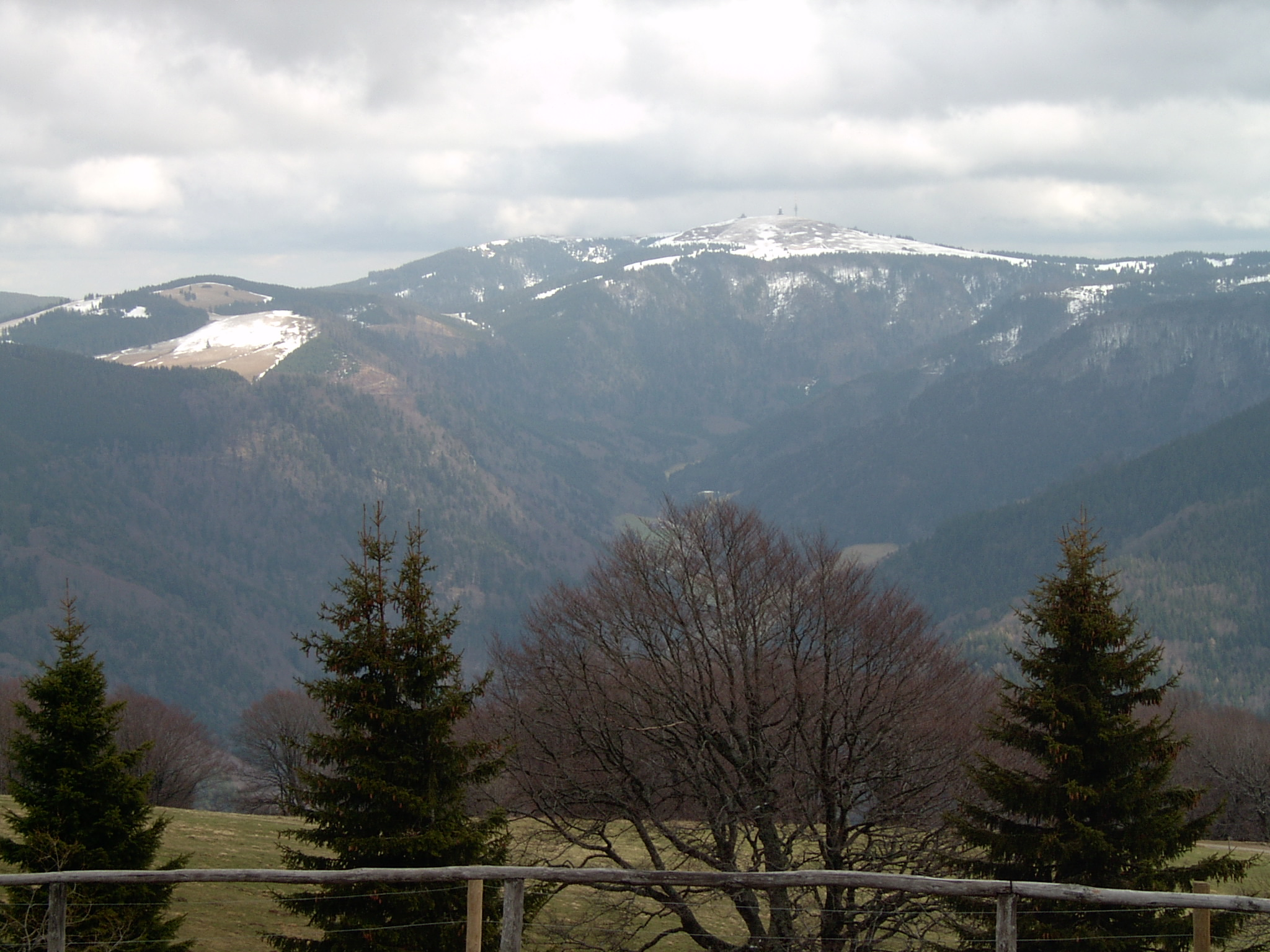 Feldberg in the Schwarzwald - view from Schauinsland